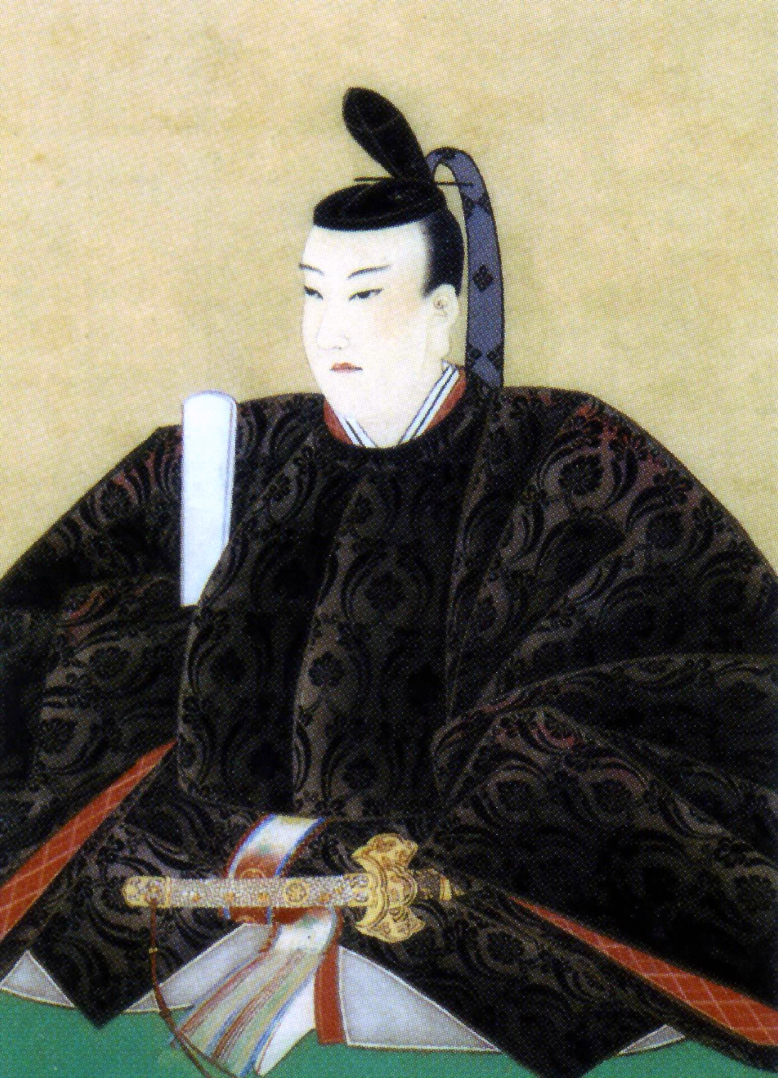 portrait of Ikeda Yoshiyuki(the 9th feudal lord of Tottori clan)